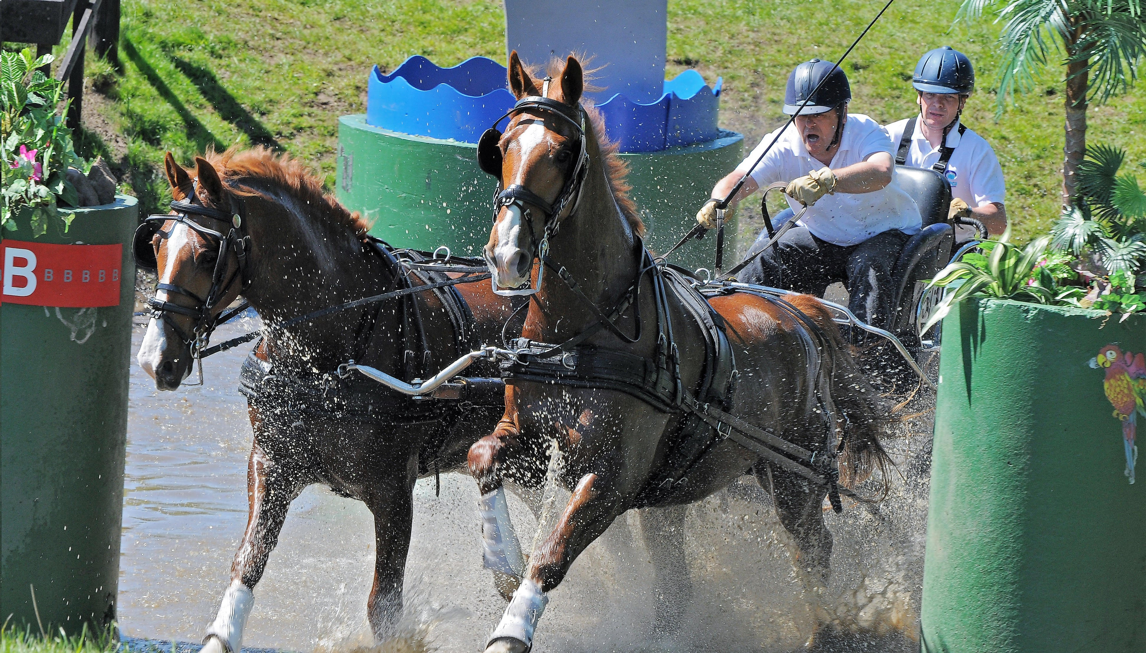 Horse Driving Trials National competition at Hopetoun, Scotland. Horse pairs competitor Owen Pilling driving through the water obstacle at speed.